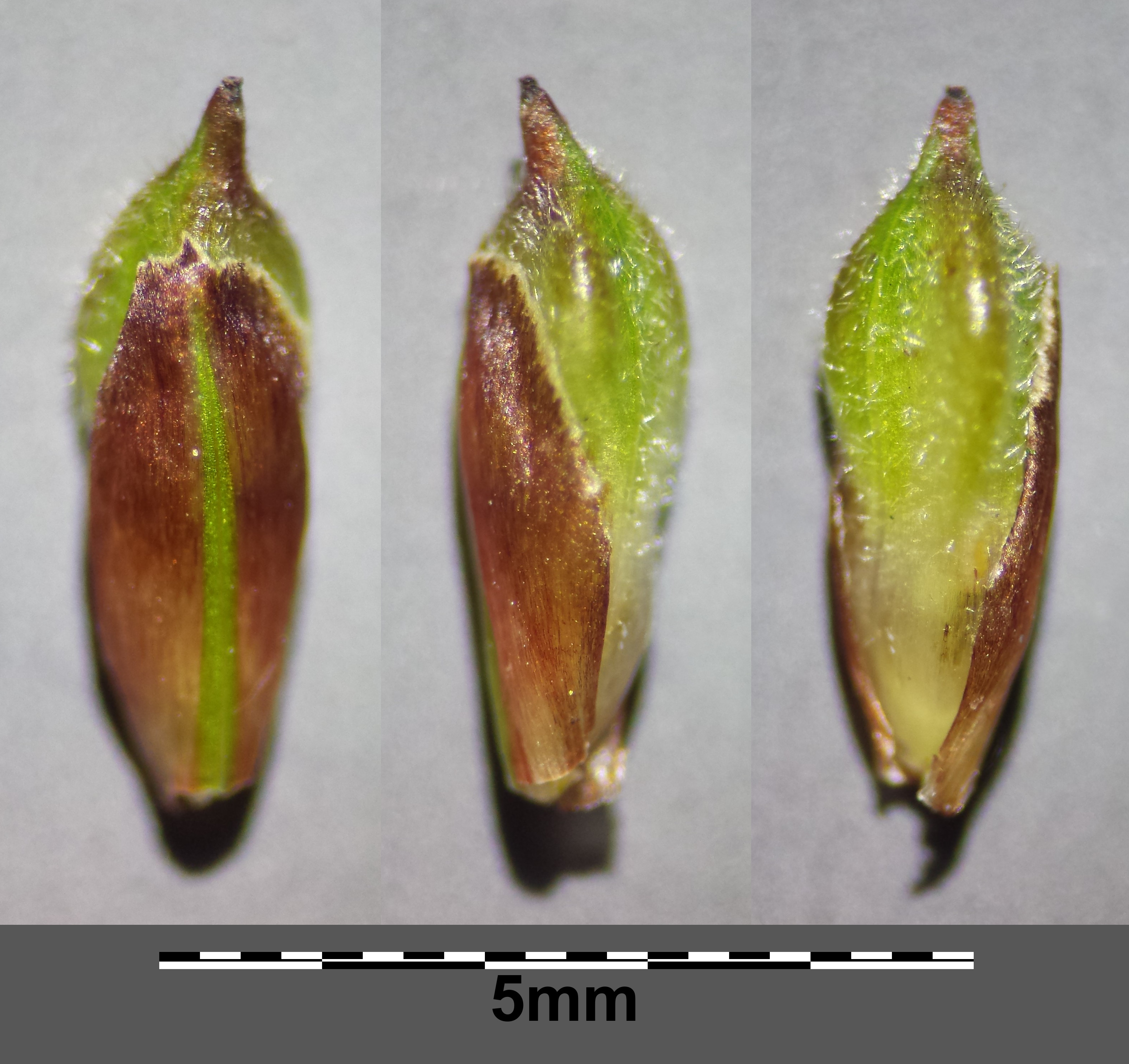 Utricle with glume Taxonym: Carex digitata ss Fischer et al. EfÖLS 2008 ISBN 978-3-85474-187-9 Location: Rohrwald, district Korneuburg, Lower Austria - ca. 280 m a.s.l. Habitat: Carpinion betuli